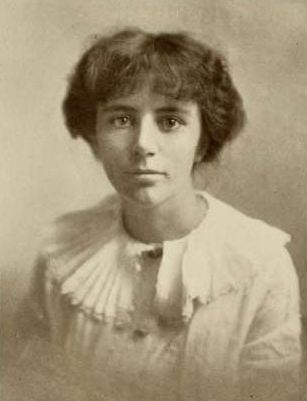 Photo from Notable Women of St. Louis, 1914, credited to Gerhard Sisters Notable women of St. Louis, 1914; by Johnson, Anne (André) "Mrs. Charles P. Johnson", 1871- Publication date 1914 Topics Women Publisher [St. Louis, Woodward Collection library_of_congress; americana Digitizing sponsor Sloan Foundation Contributor The Library of Congress Language English Call number 273387 Camera Canon 5D Identifier notablewomenofst00john Identifier-ark ark:/13960/t0tq66z8n Identifier-bib 00145723176 Ocr ABBYY FineReader 8.0 Openlibrary_edition OL6566619M Openlibrary_work OL7734088W Pages 522 Possible copyright status NOT_IN_COPYRIGHT Ppi 300 Scandate 20090203222701 Scanfactors 4 Scanner Scanningcenter capitolhill Full catalog record MARCXML